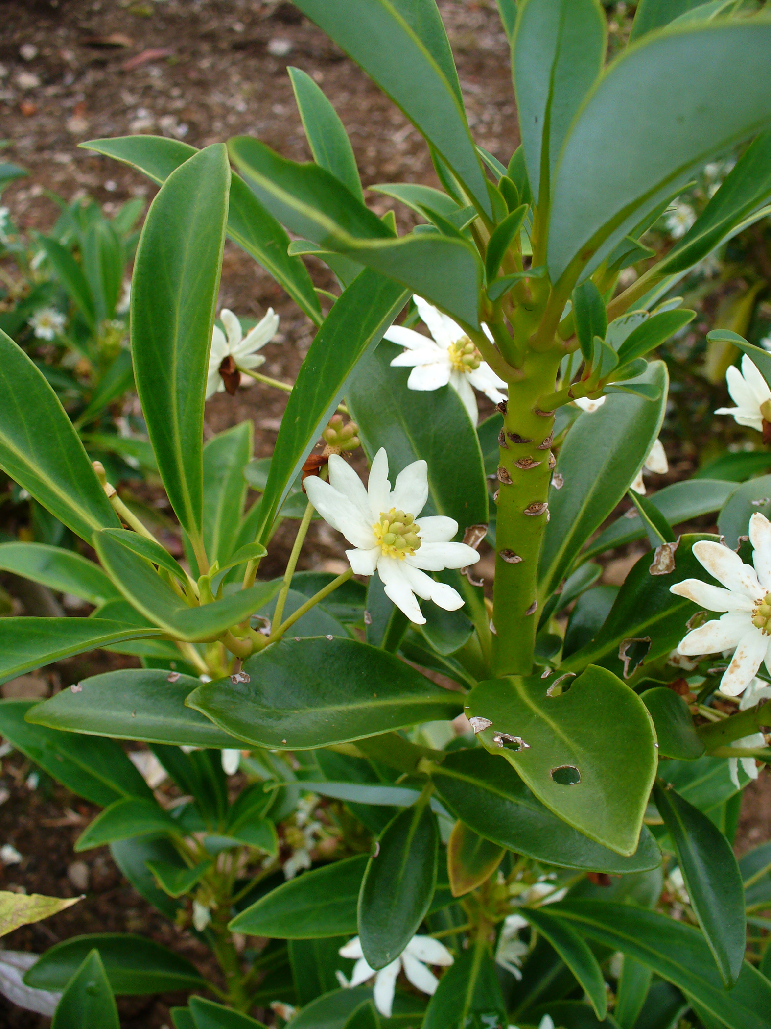 The Garden House, Buckland Monachorum, Devon, UK. Former estate of Lionel Fortescue.